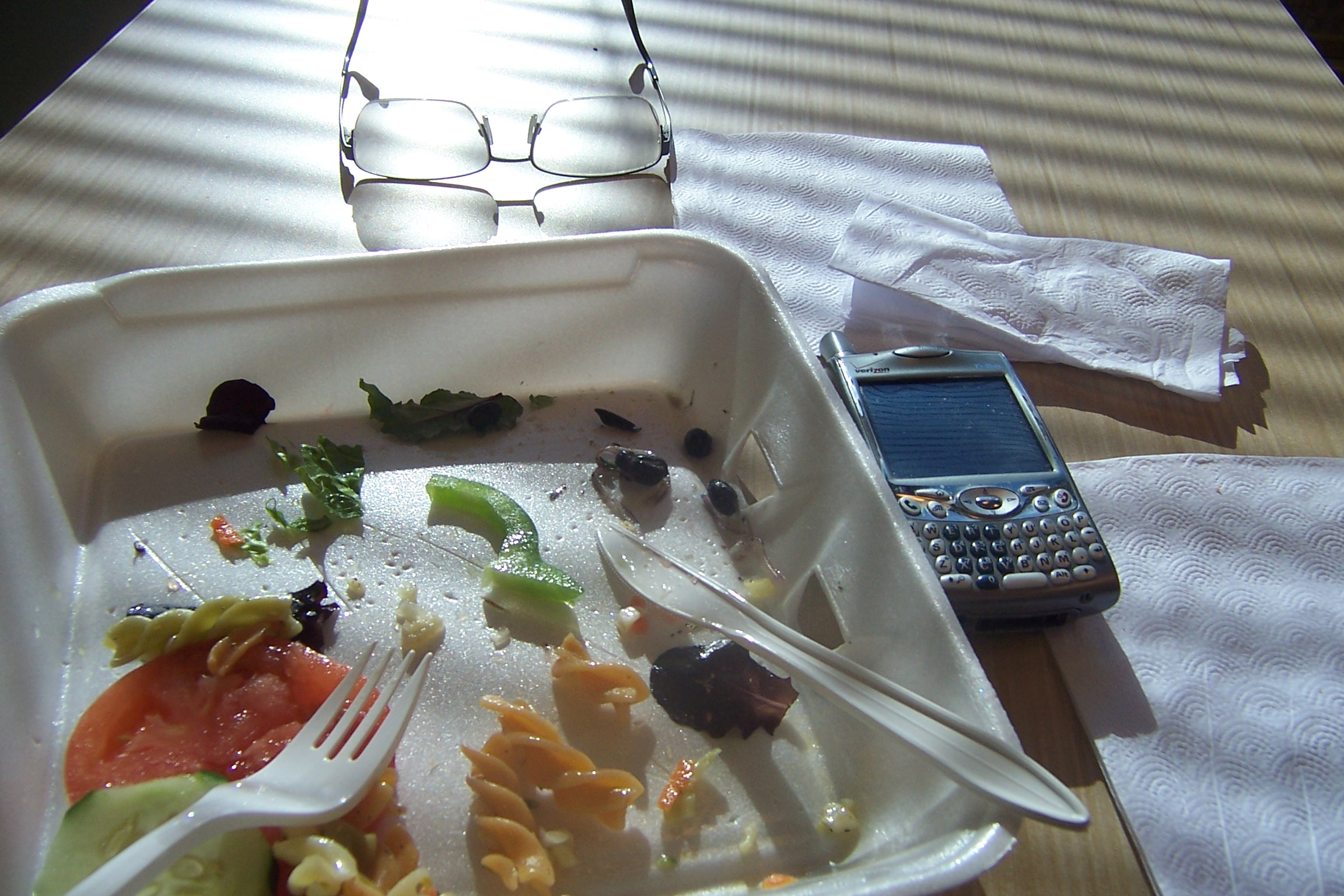 A lunchtime scene at the table in the Florham Park Cafe, a lunch facility inside a pair of office buildings on Vreeland Road in Florham Park, New Jersey.